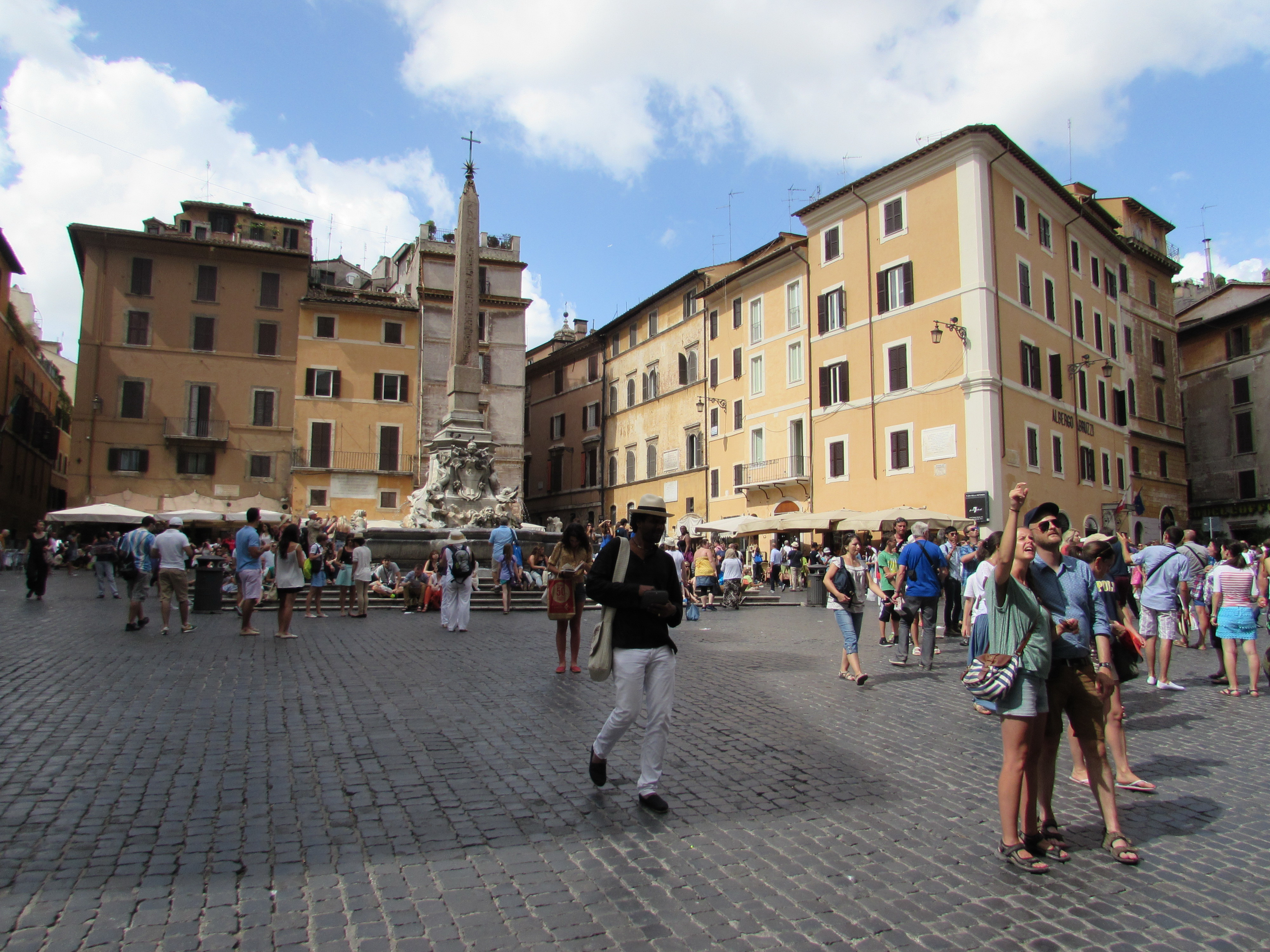 Piazza della Rotonda (Rome)